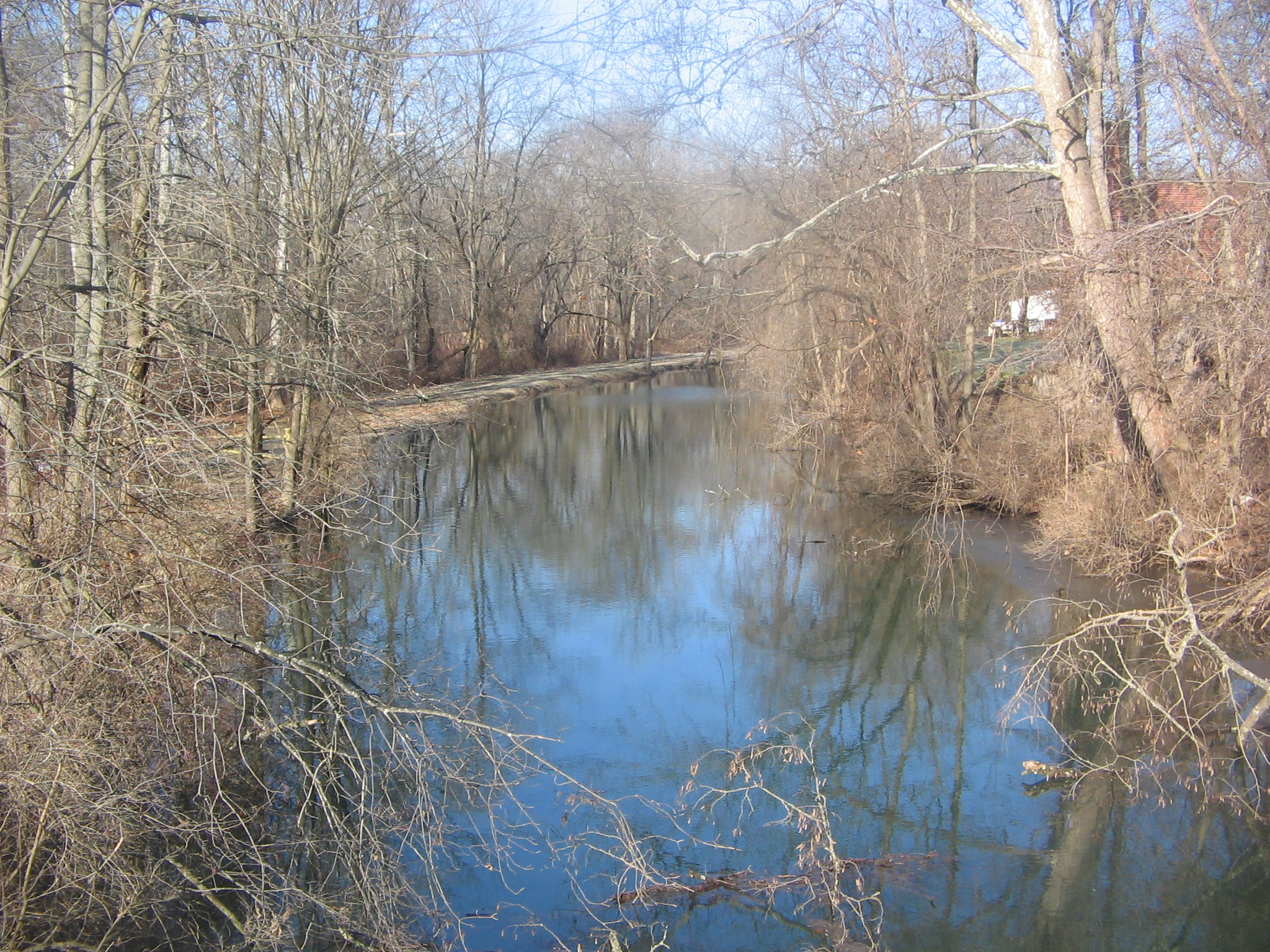 Remnants of the Bald Eagle Crosscut Canal, in the borough of Flemington, Clinton County, Pennsylvania, USA. View is looking west from the Pennsylvania Route 150 bridge.